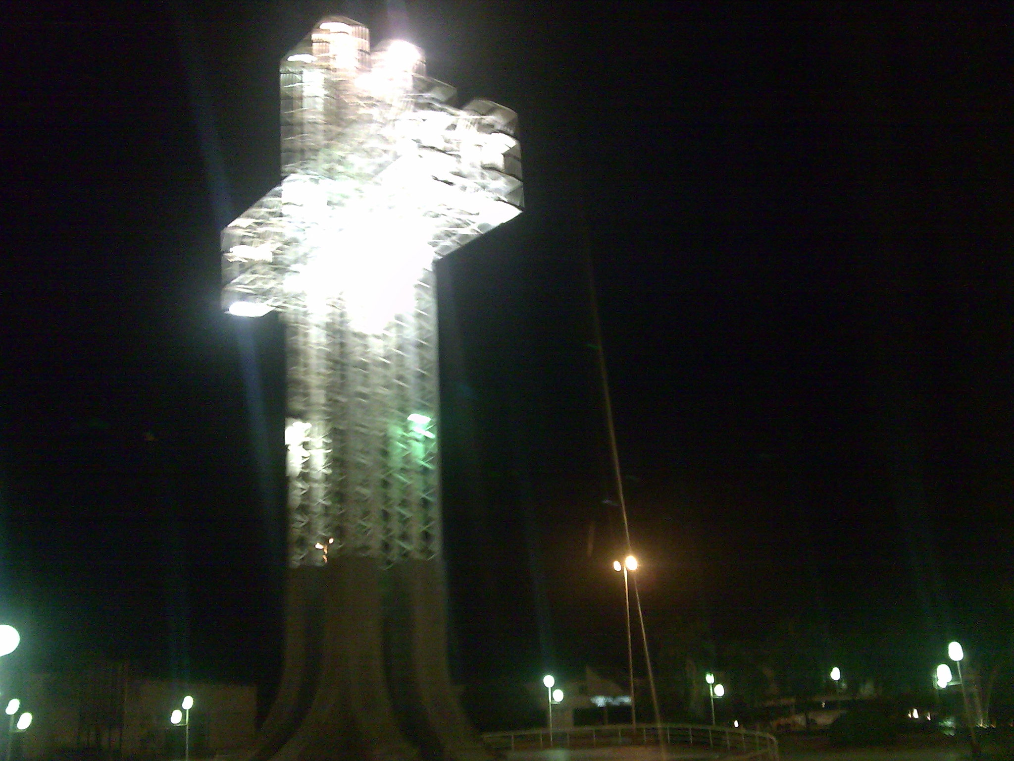 Cross located in the southern of Formosa city, Argentina.